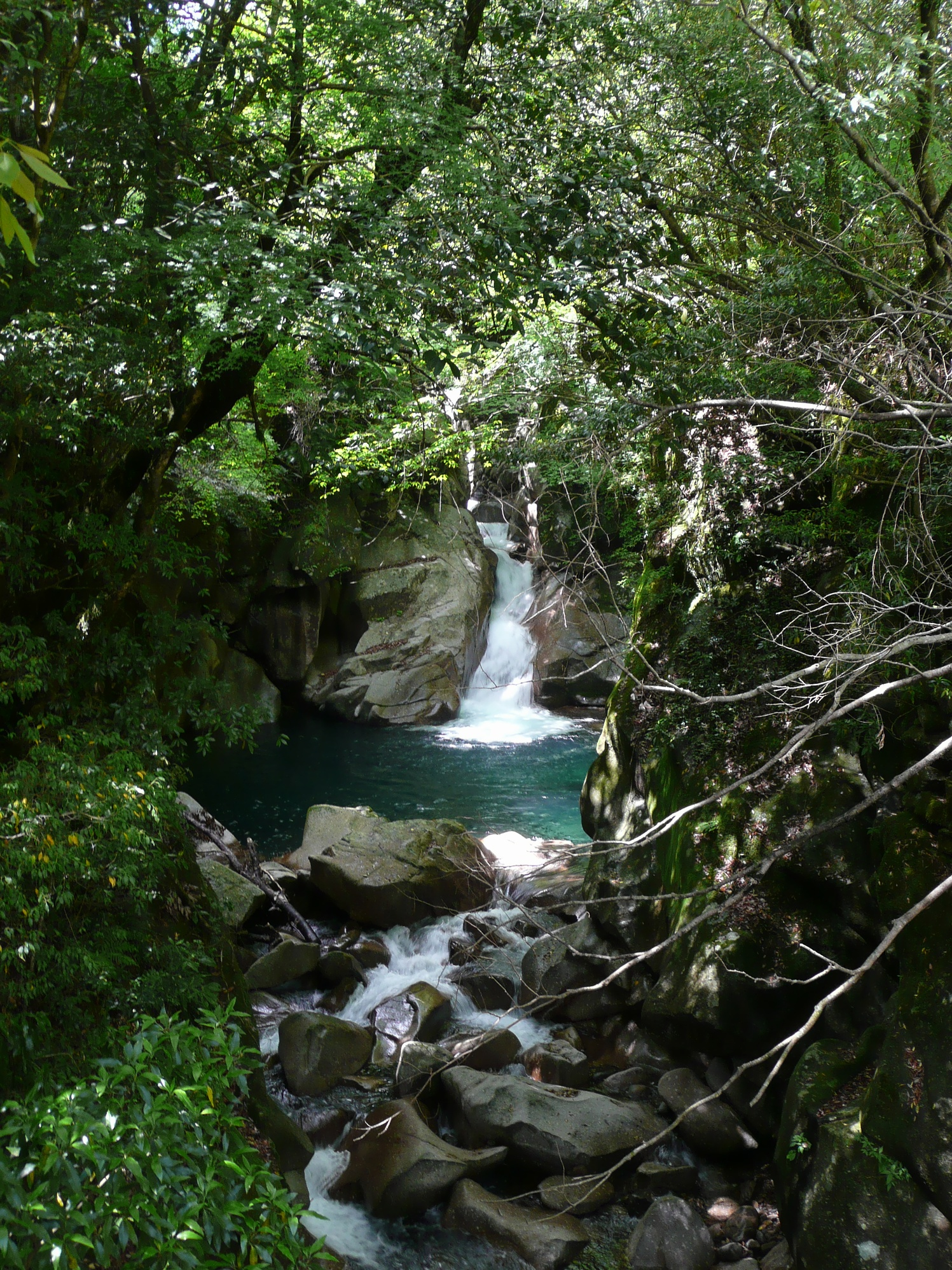 Jabuchi (Nishimera Village, Miyazaki Prefecture, Japan)